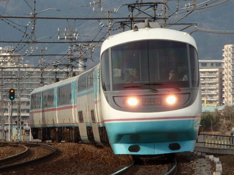 Odakyu Electric Railway Company, EMU Type 20000